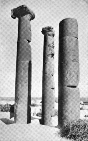 The basaltic columns on the roof of a mudbrick house in Harran al-Awamid. They are part of the ruins of a Roman temple